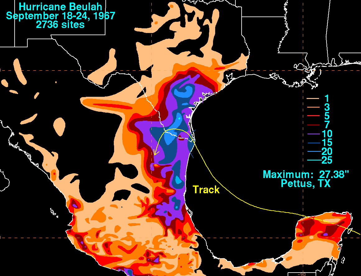 Storm total rainfall map of Hurricane Beulah during September 1967.